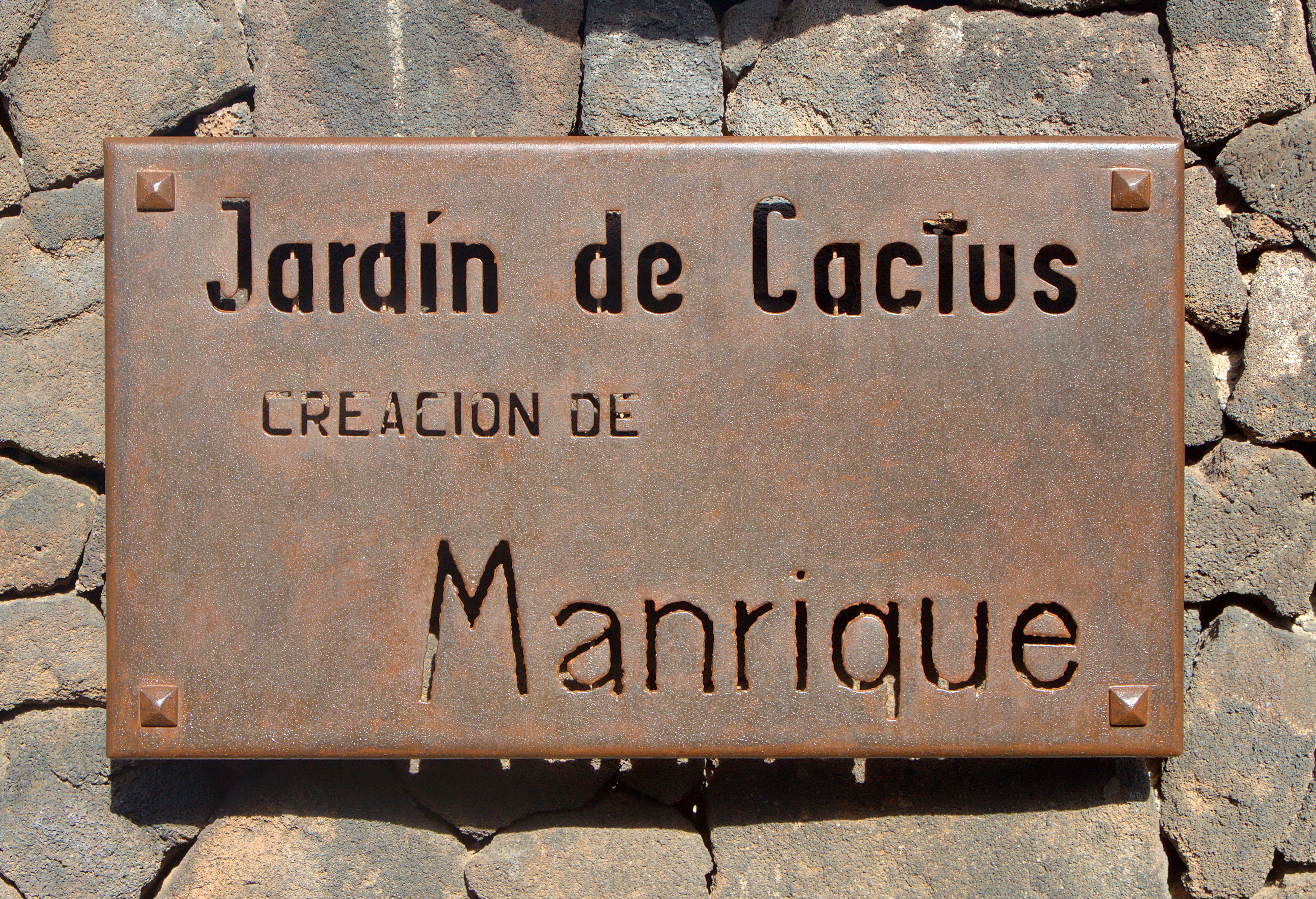 Sign at the entrance of the Jardín de Cactus, Guatiza, Lanzarote, Canary Islands, Spain.